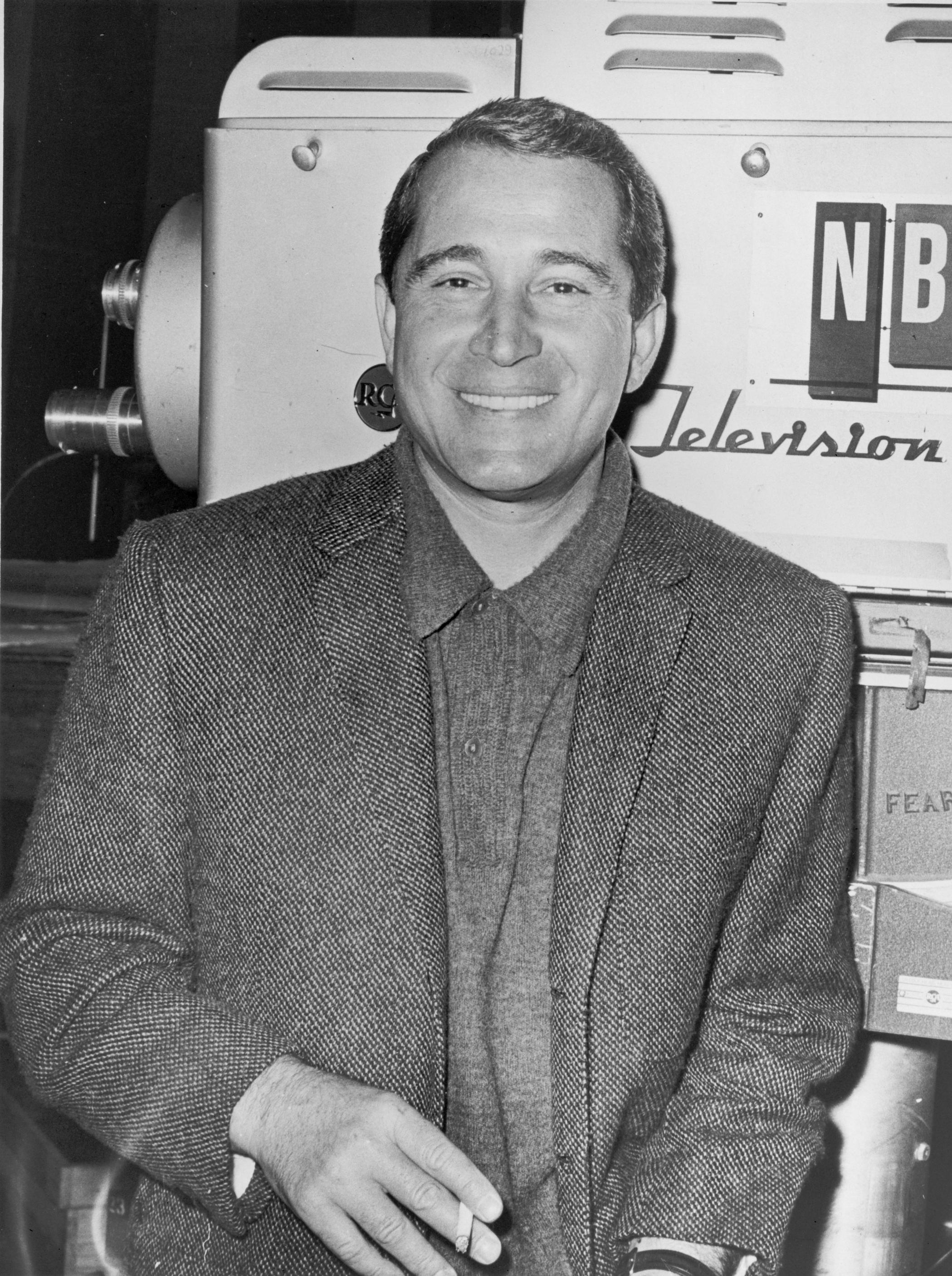 Perry Como, American singer